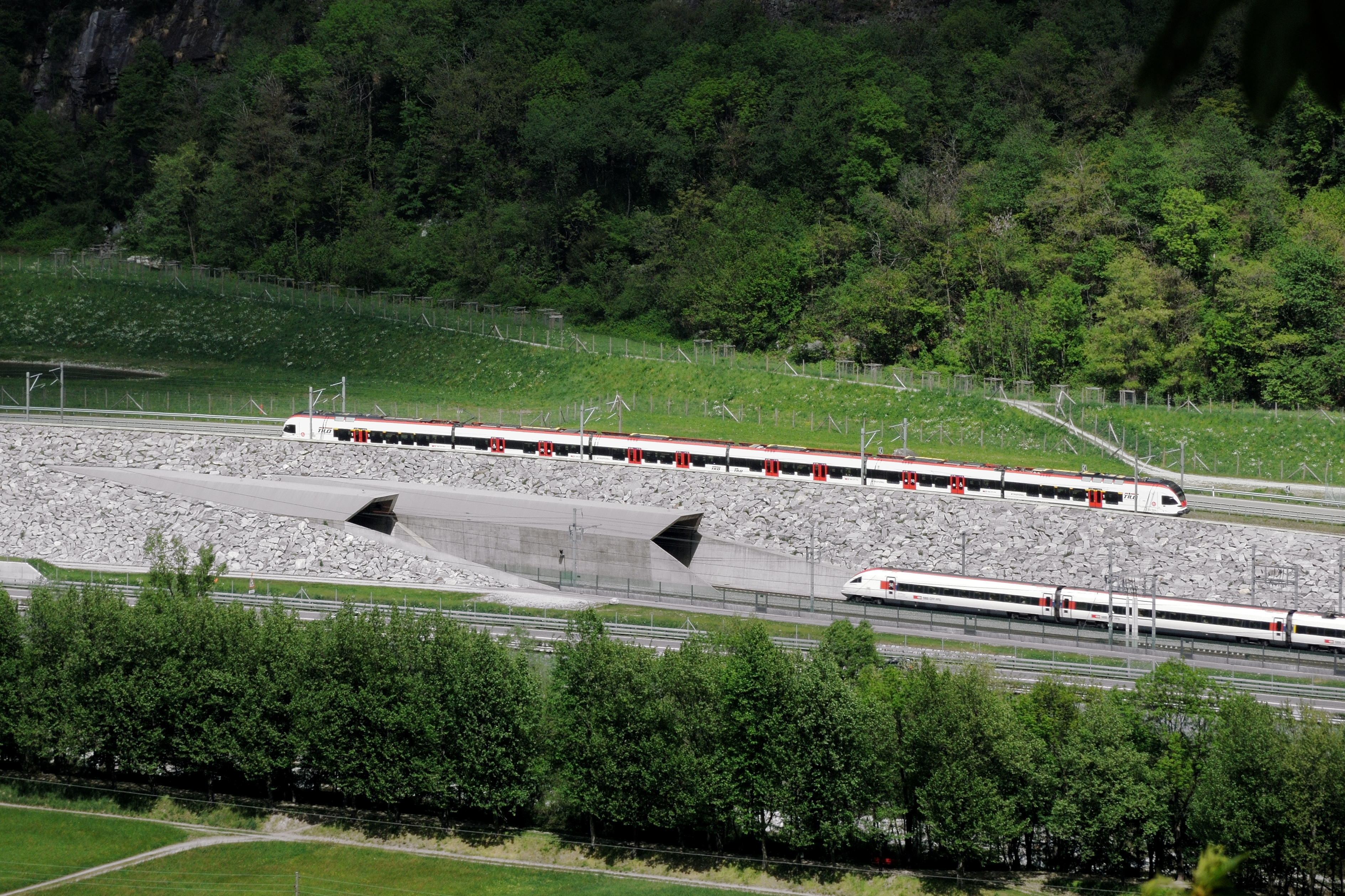 South portal of the Gotthard Base Tunnel and the adjacent Gotthard summit railway from above Personico. Composite image made of two photos taken 14 minutes apart. First photo (14:36): ICN exiting the tunnel and heading towards Bellinzona. Second photo (14:50): TILO moving on the summit railway from Lavorgo and heading towards Biasca.